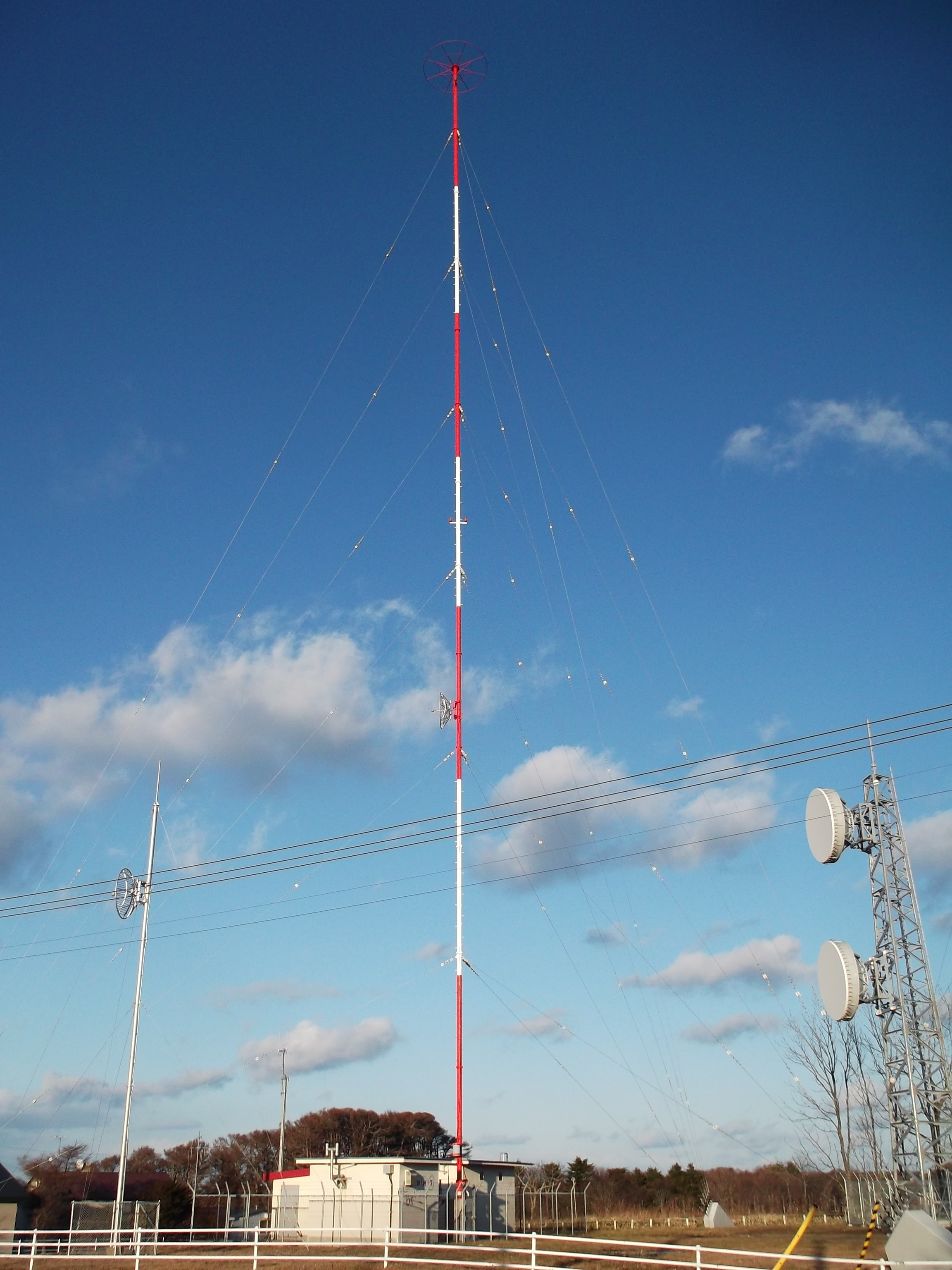 NHK Nemuro Radio Broadcast Relay Station